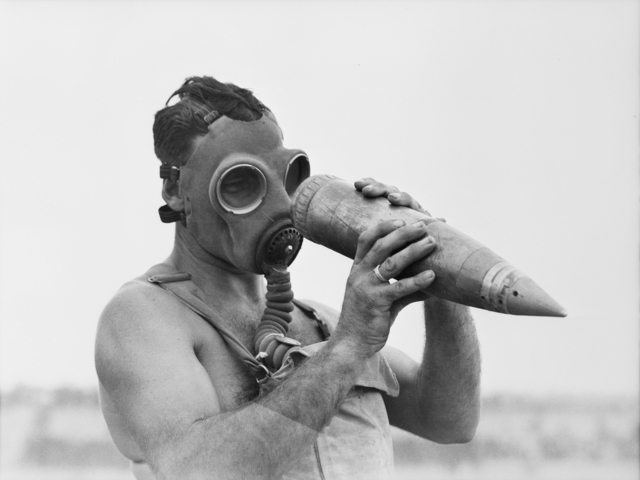 AWM Caption: SINGLETON, AUSTRALIA. 1943-01. EXPERIMENTAL SHOOT OF GAS-SHELLS BY 2/2ND FIELD REGIMENT, ROYAL AUSTRALIAN ARTILLERY. AN OBSERVER WHO HAS MOVED INTO THE GAS-AFFECTED TARGET AREA TO RECORD RESULTS, EXAMINES AN UN-EXPLODED SHELL.